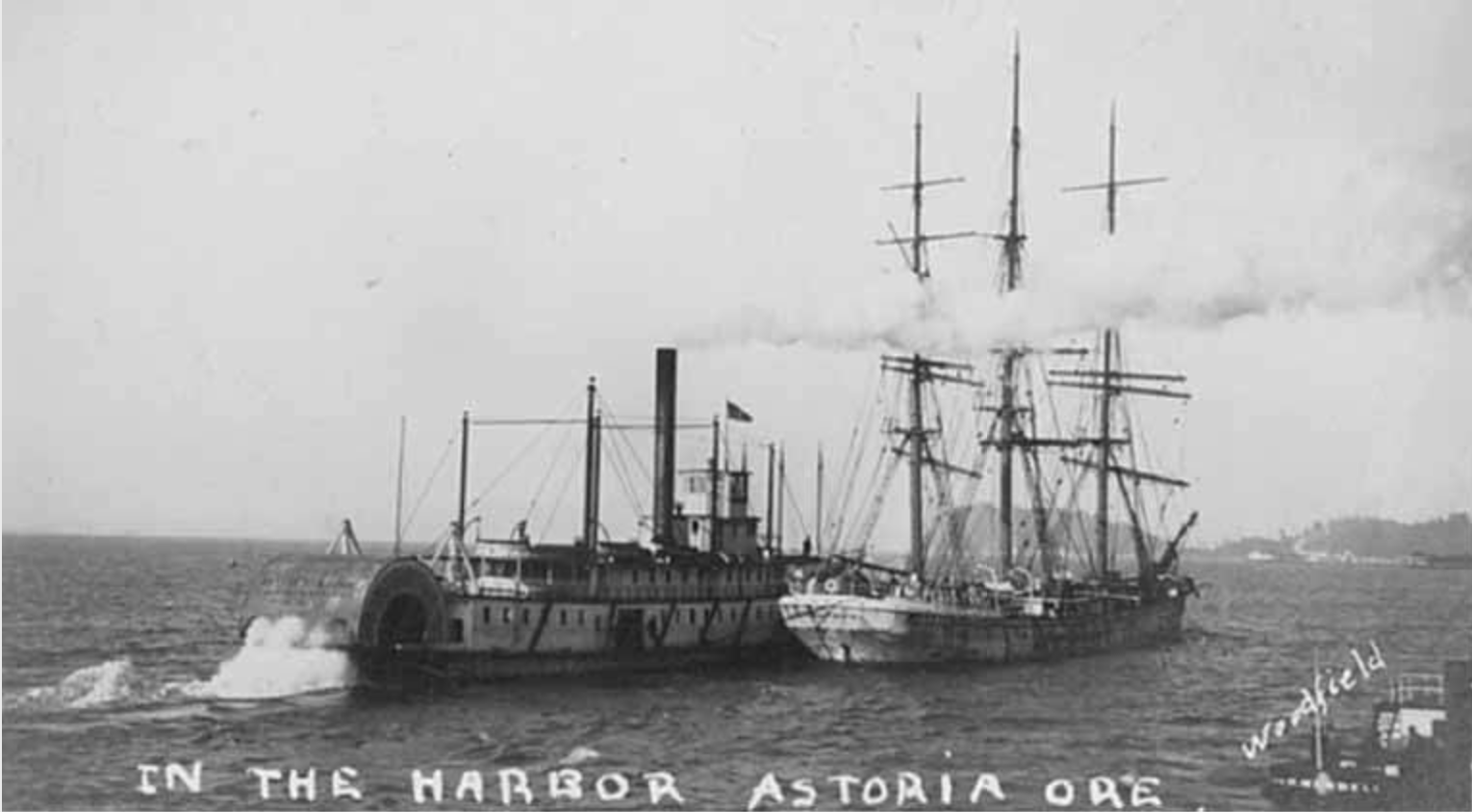 Sternwheeler Harvest Queen acting as tug for a sailing ship, in Astoria, Oregon, circa 1906.